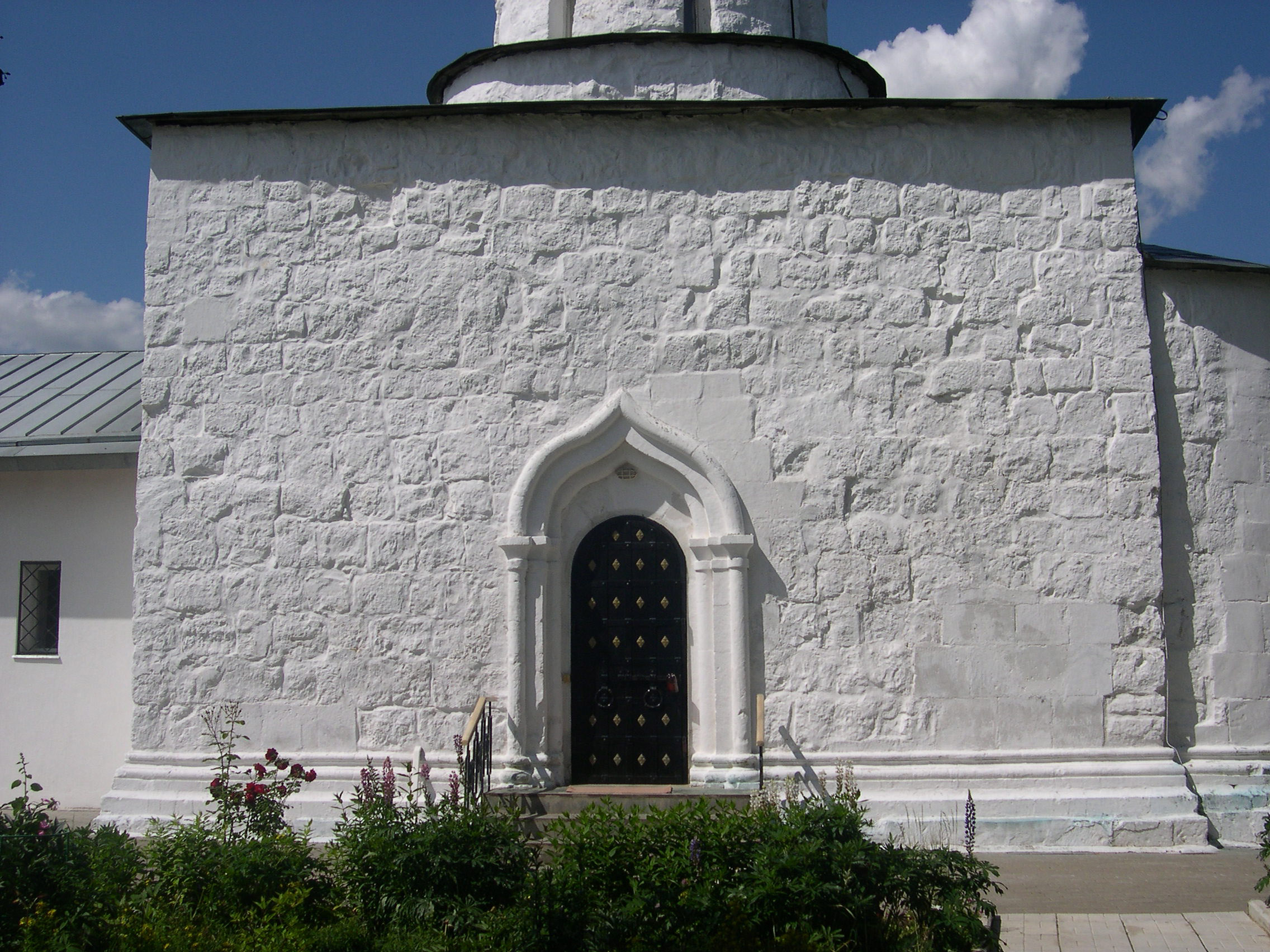 Saint Nicholas church in Kamenskoe (Moscow oblast), south front